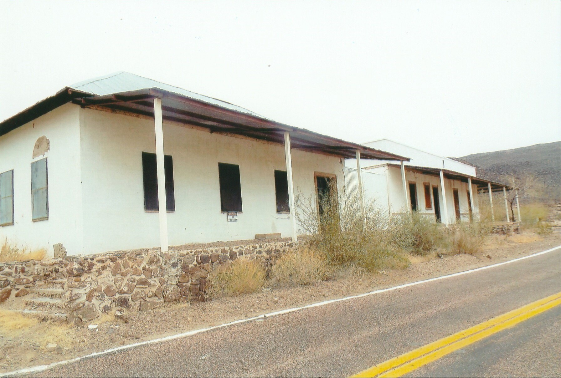 Agua Caliente -Agua Caliente Resort was built in 1897 in Arizona